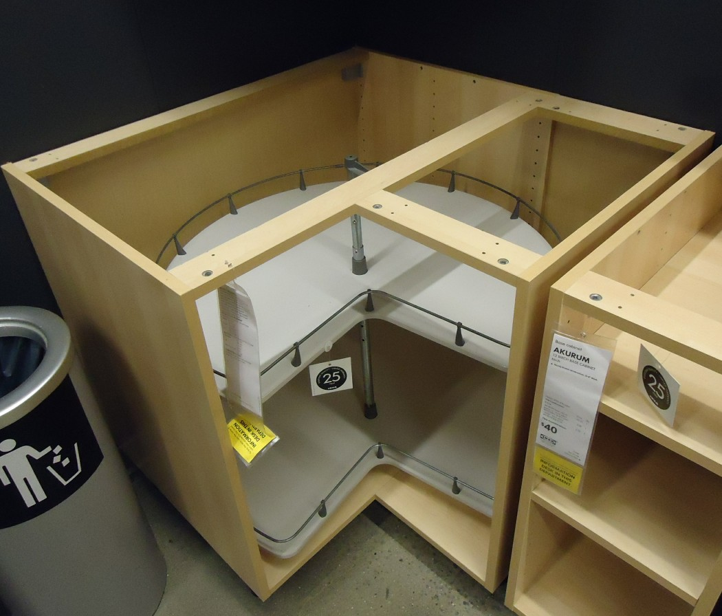 A corner kitchen cabinet with the countertop removed, showing a turntable underneath.